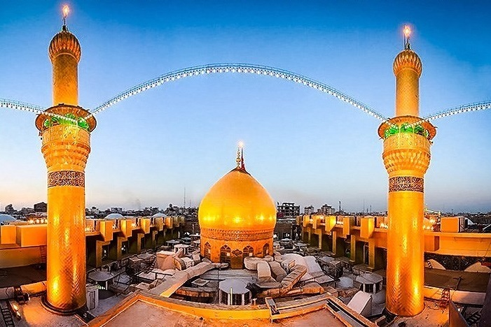 Ashura Mourning in Karabala, Iraq